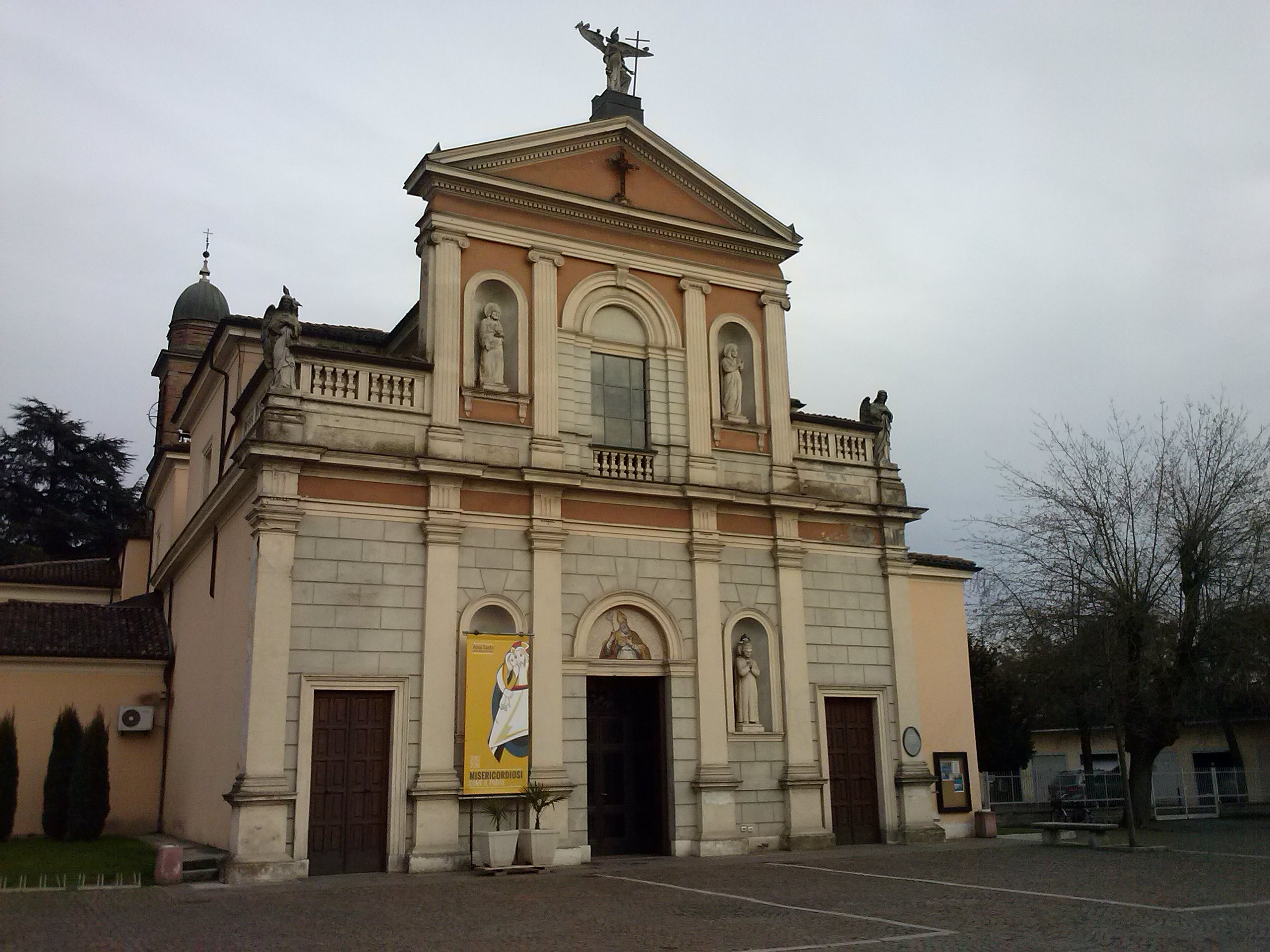 Church of S.Nicholas, located in San Nicolò a Trebbia, municipality of Rottofreno (Piacenza, Italy)